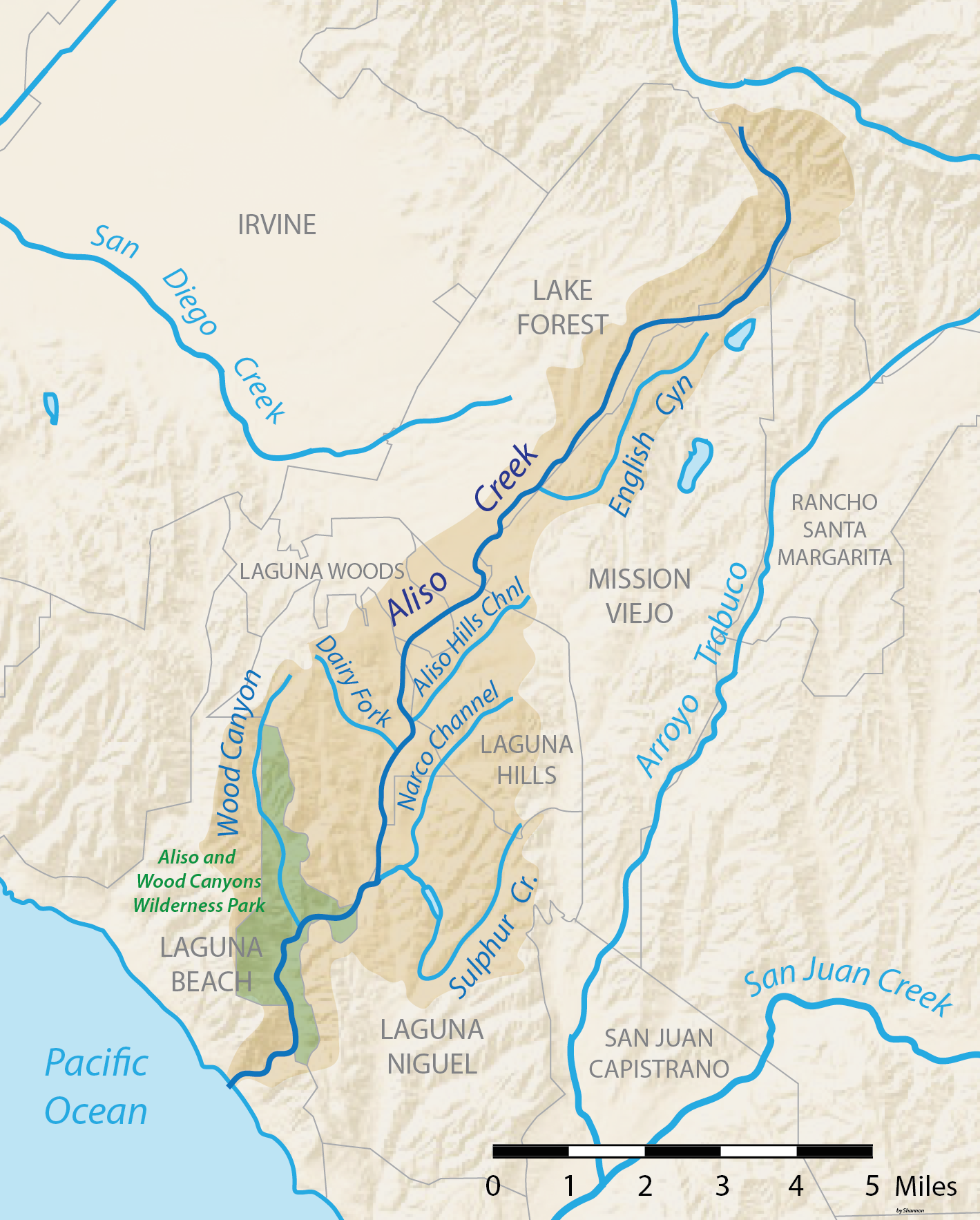 Map of the Aliso Creek watershed in Orange County, California showing terrain and major cities. Shaded relief data from USGS.